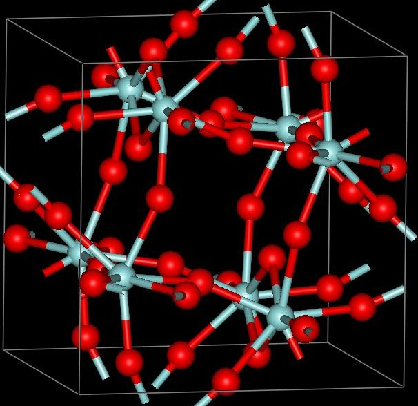 Tetragonal ZrF4 per Papiernik R., Mercurio D., Frit B., "Structure du Tetrafluorure de Zirconium, ZrF4 a" in ACTA CRYSTALLOGRAPHICA, SECTION B: STRUCTURAL CRYSTALLOGRAPHY AND CRYSTAL CHEMISTRY, 1982 v. 38 pp. 2347-2353